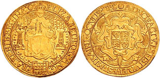 Elizabeth I of England. 1558-1603. AV Sovereign (15.20 g). Second issue, second period, 1585-1587. London mint. Elizabeth seated facing on elaborate throne, holding sceptre and orb, portcullis below; mm: scallop Royal coat-of-arms on Tudor rose. Schneider 780; North 2003; SCBC 2529.